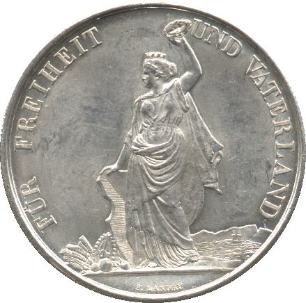 1872 Shooting Thaler Obverse